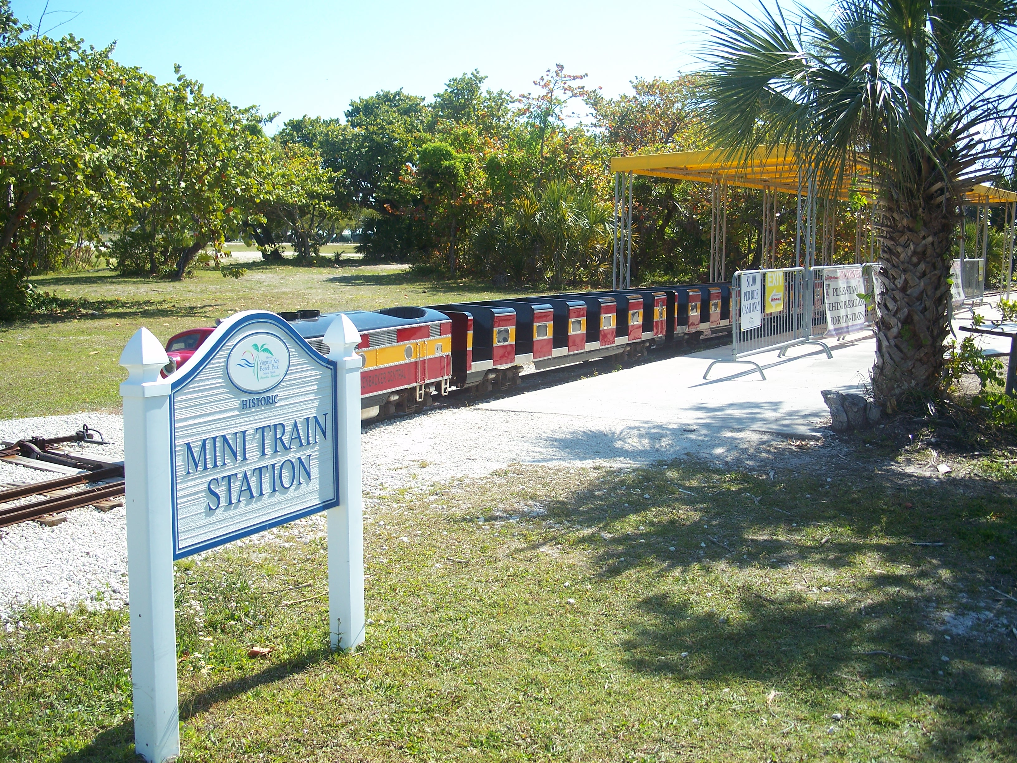 Miami, Florida: Virginia Key Beach Park: Miniature railroad.